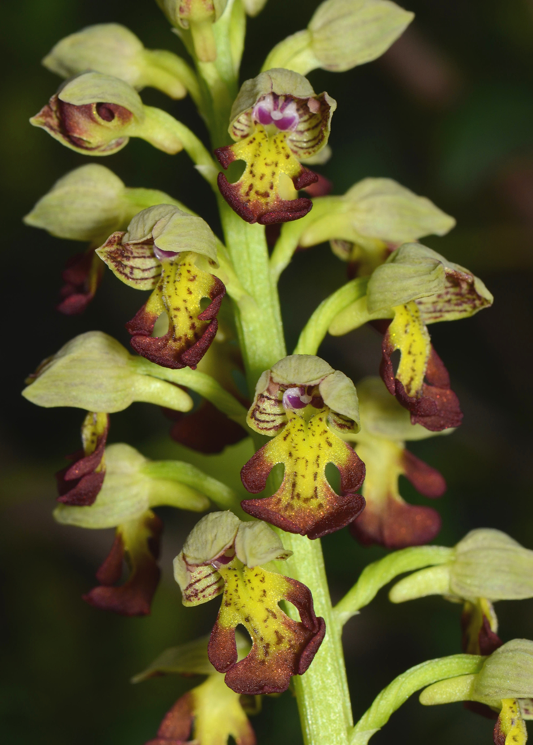 Orchis punctulata Steven ex Lindl., Mount Carmel, Israel, February 18, 2013.